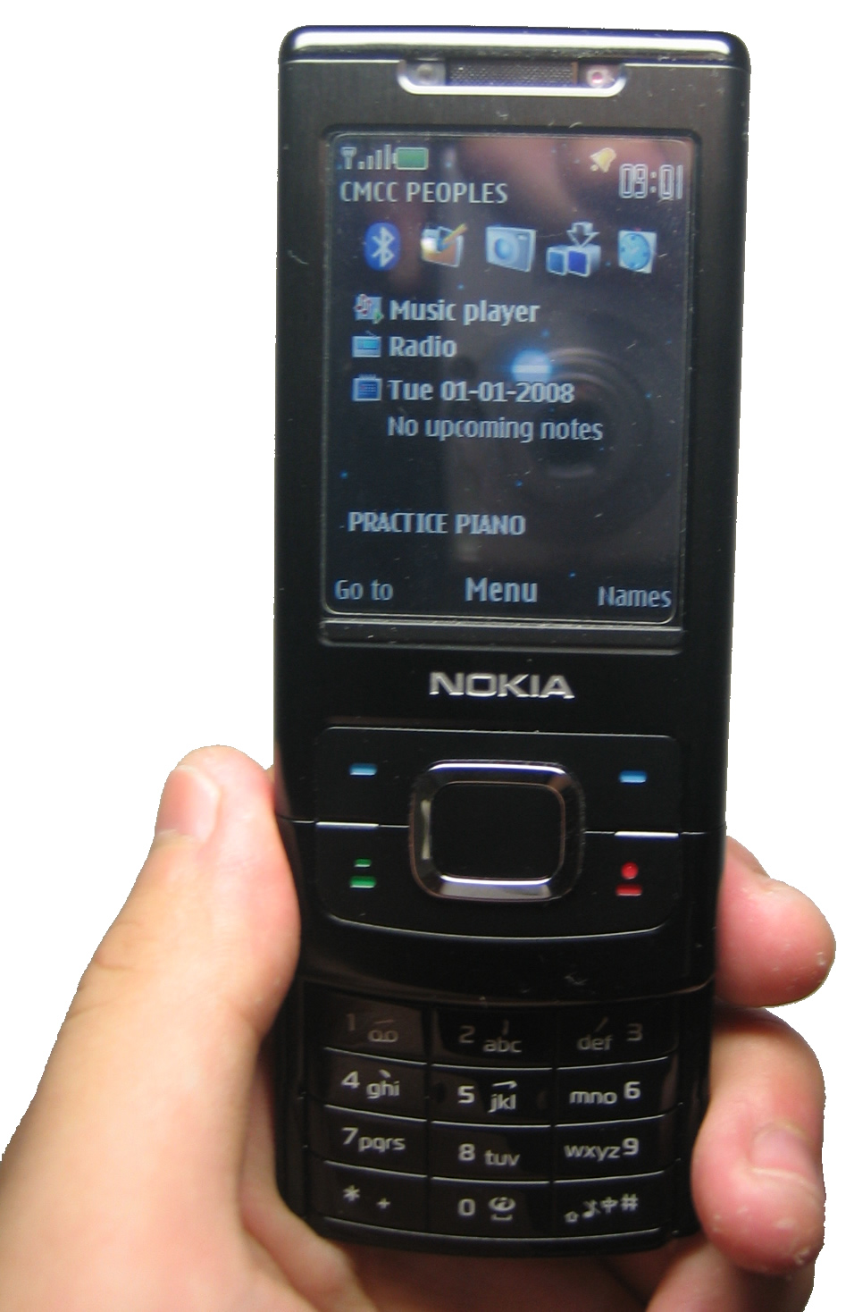 Nokia 6500 slide mobile phone, open position.